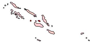 Map of the Solomon Islands showing Central province. Made by User:Golbez.